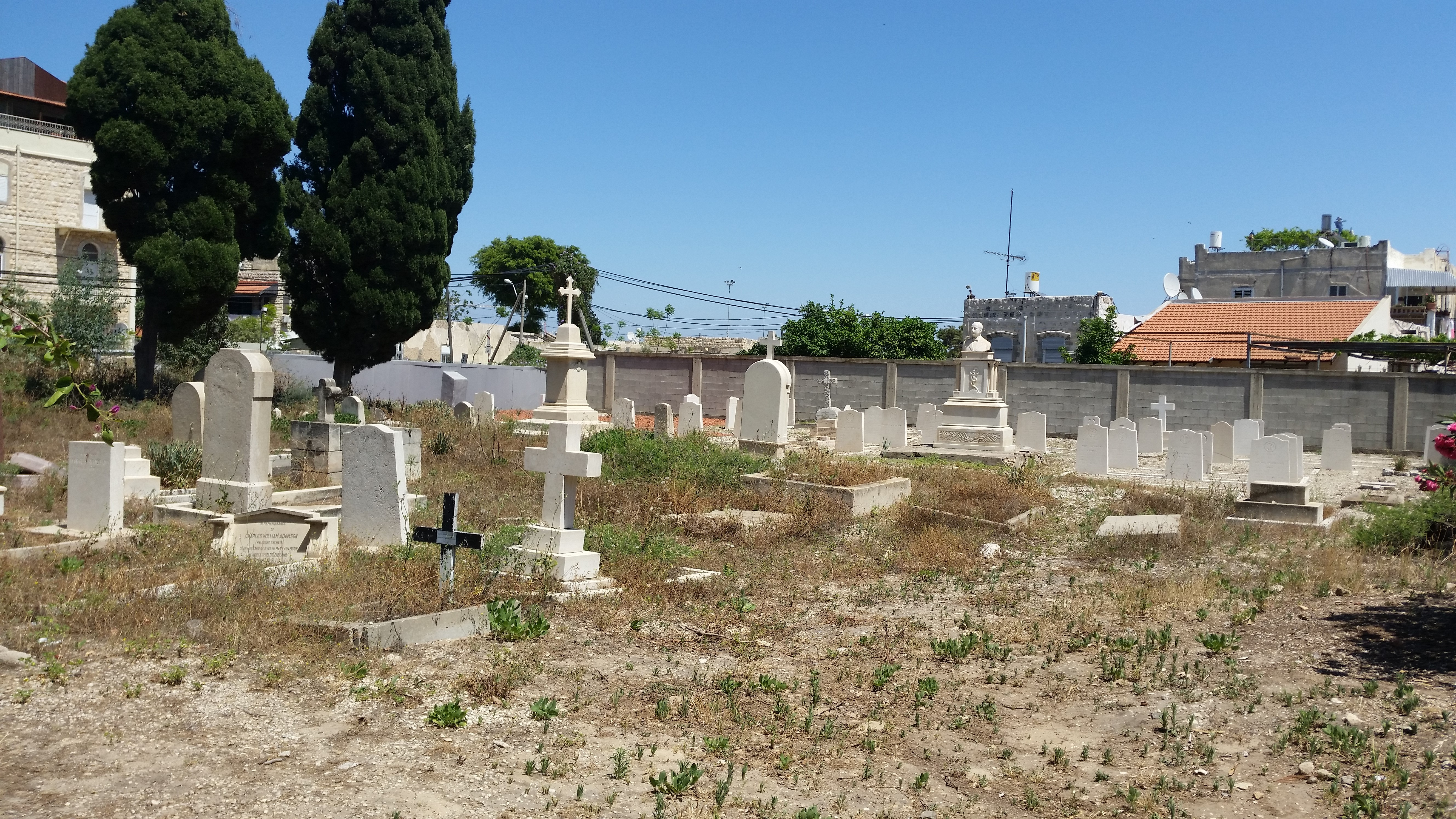 The Anglican cemetery in Haifa, Israel.